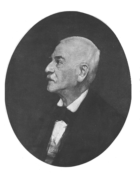 picture of Carl Jacob Christoph Burckhardt from 1890 (Image is mirror inverted)